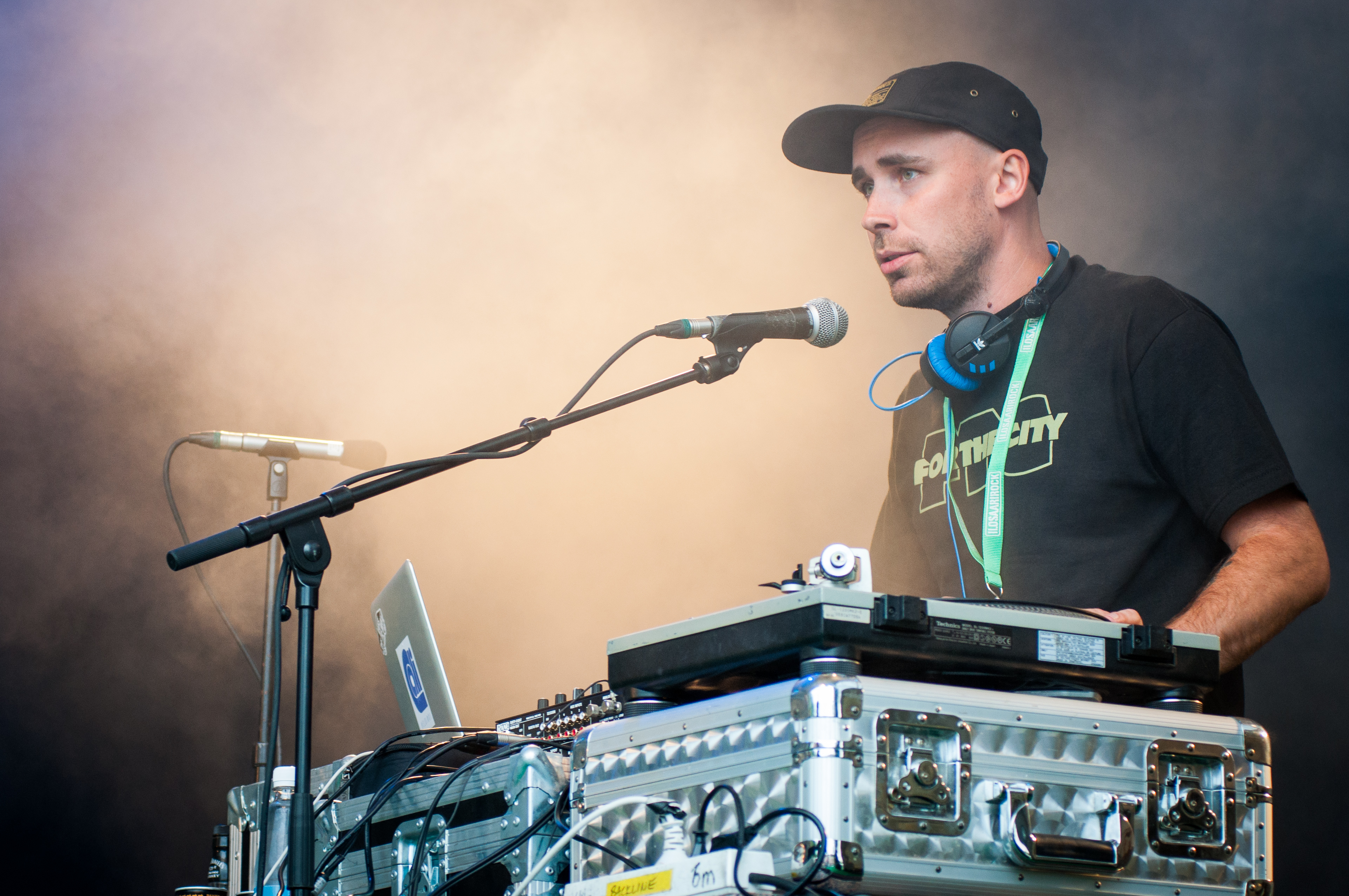 Finnish DJ J-Laini performing as a part of Rokkilokin Rentoshow at the 2011 Ilosaarirock festival in Joensuu, Finland.